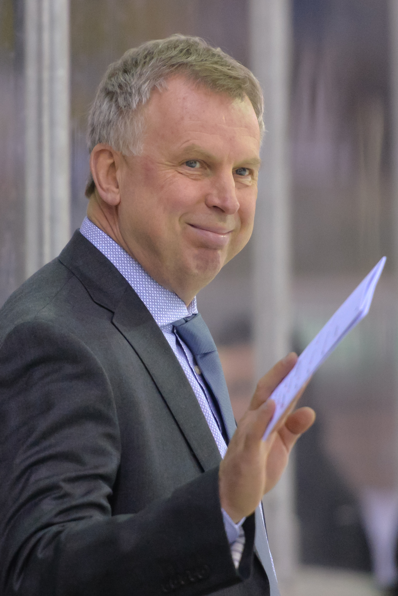 EBEL Vienna Capitals vs. EHC Liwest Black Wings Linz 2016-01-24